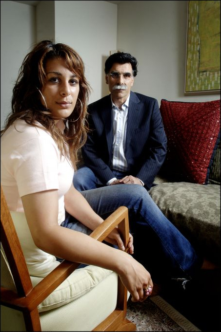 Kader Abdolah (pseudonym of Hossein Sadjadi Ghaemmaghami Farahani), Iranian born Dutch writers and his daughter, who co-authored one of his books